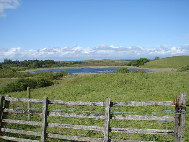 Barhapple Loch (South-West) View of Barhapple Loch from Derskelpin Farm. Barhapple Loch is shared with 3 other grids.